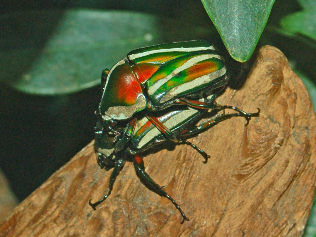 Dicronorrhina derbyana at the Montreal Insectarium